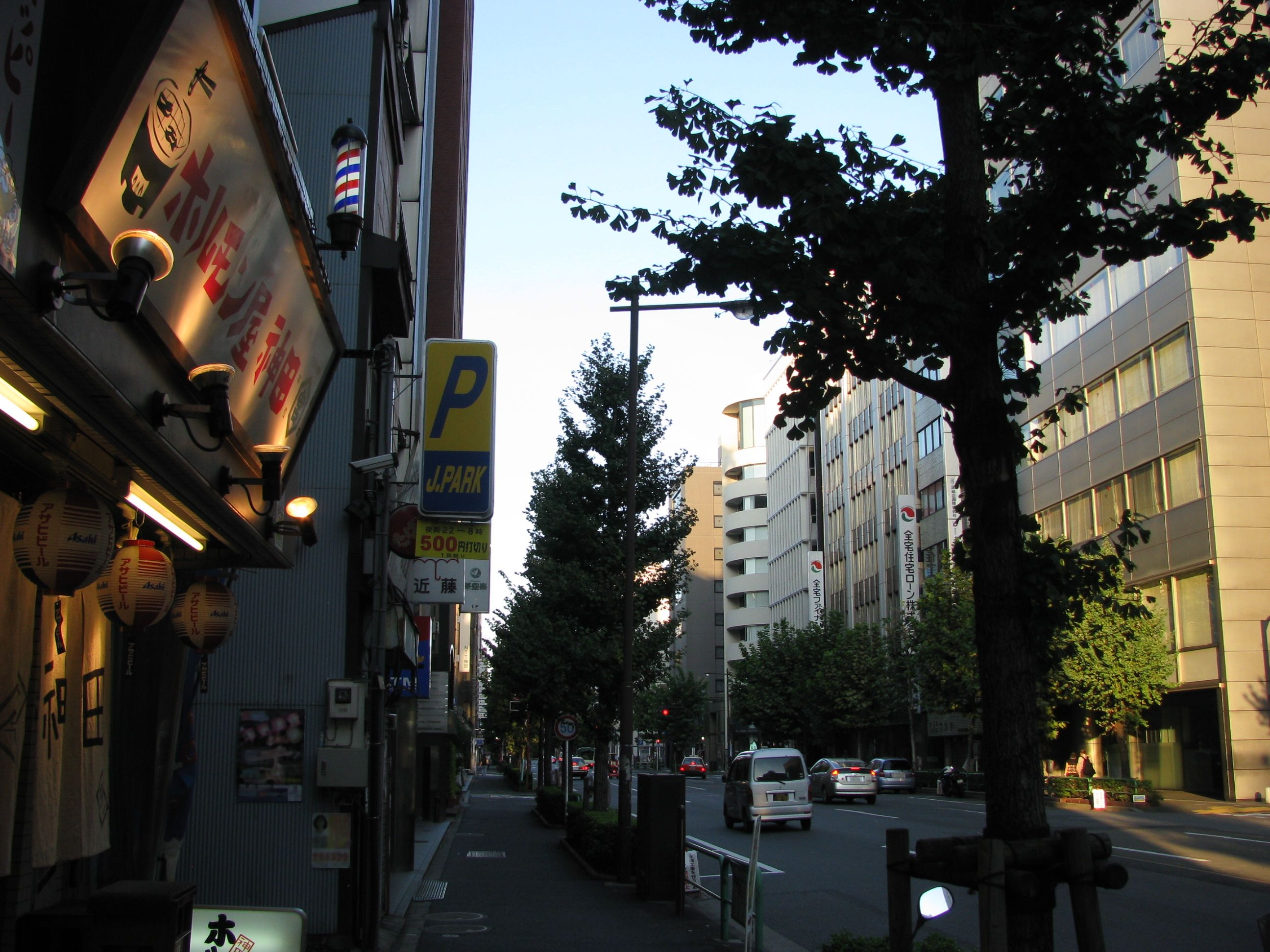 View of the Kanda-tsukasamachi in Chiyoda, Tokyo, Japan.